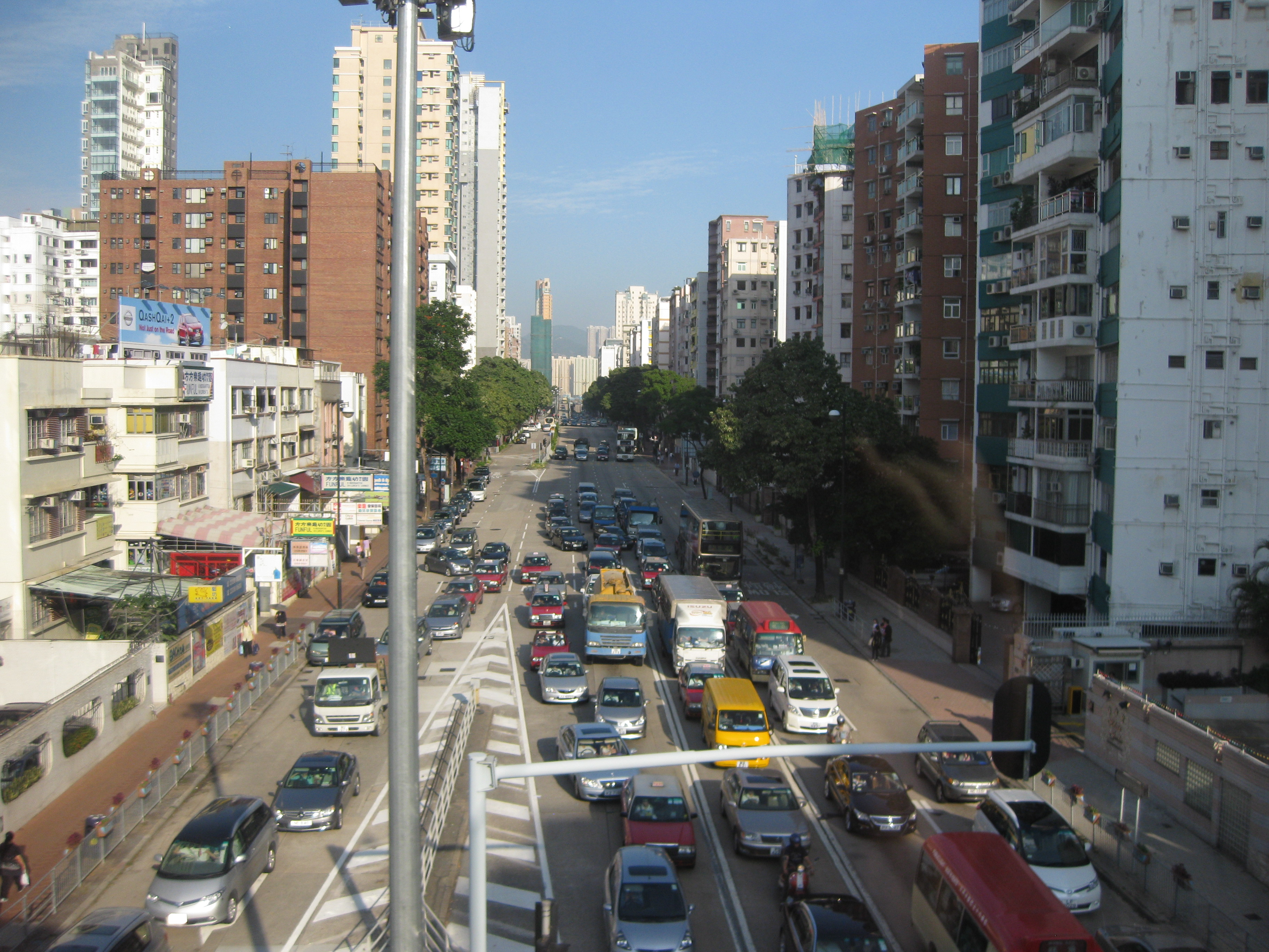 Traffic Congestion of Prince Edward Road West in Saturday afternoon